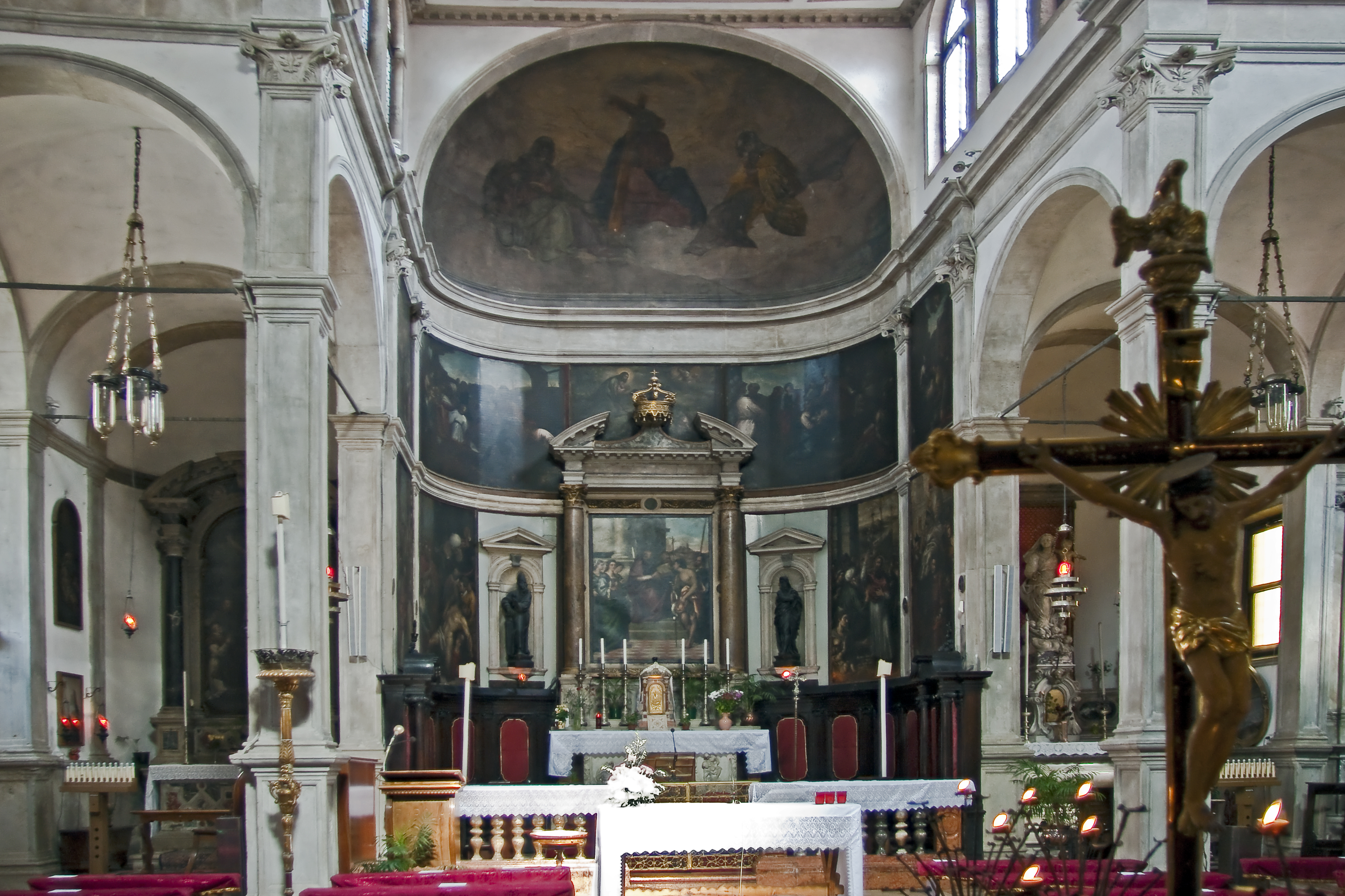 San Giovanni Crisostomo, Venice Interior